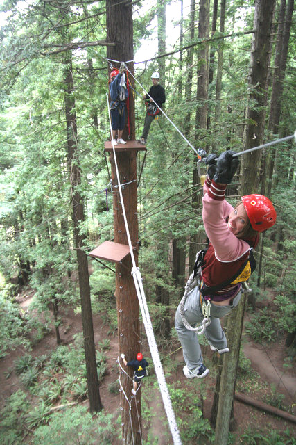 Kids in the city of Arcata's Recreation Division zipline far above the forest floor. Arcata, CA Photo by: Cheyenne Gillett gillett14_zip